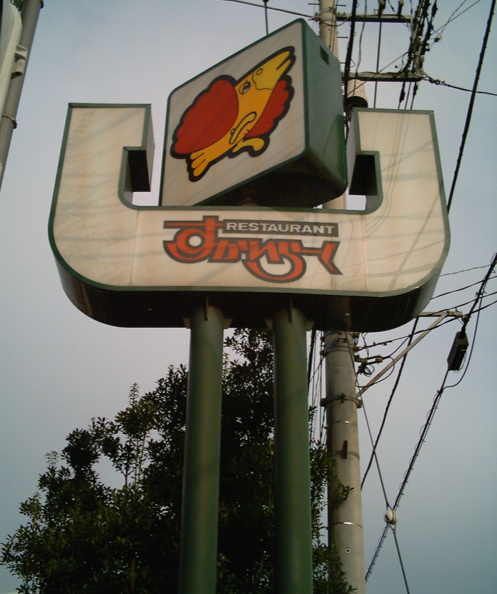 Skylark_Restaurant_neonsain tokorozawa City photography day, 2006.9.7. photography person Tokoroten